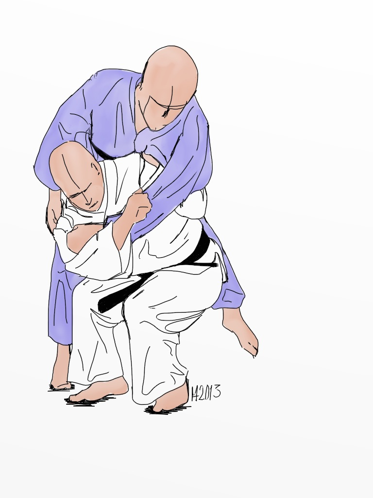 Illustration of the judo throw eri-seoi-nage, or lapel shoulder-throw. A variation of morote-seoi-nage.